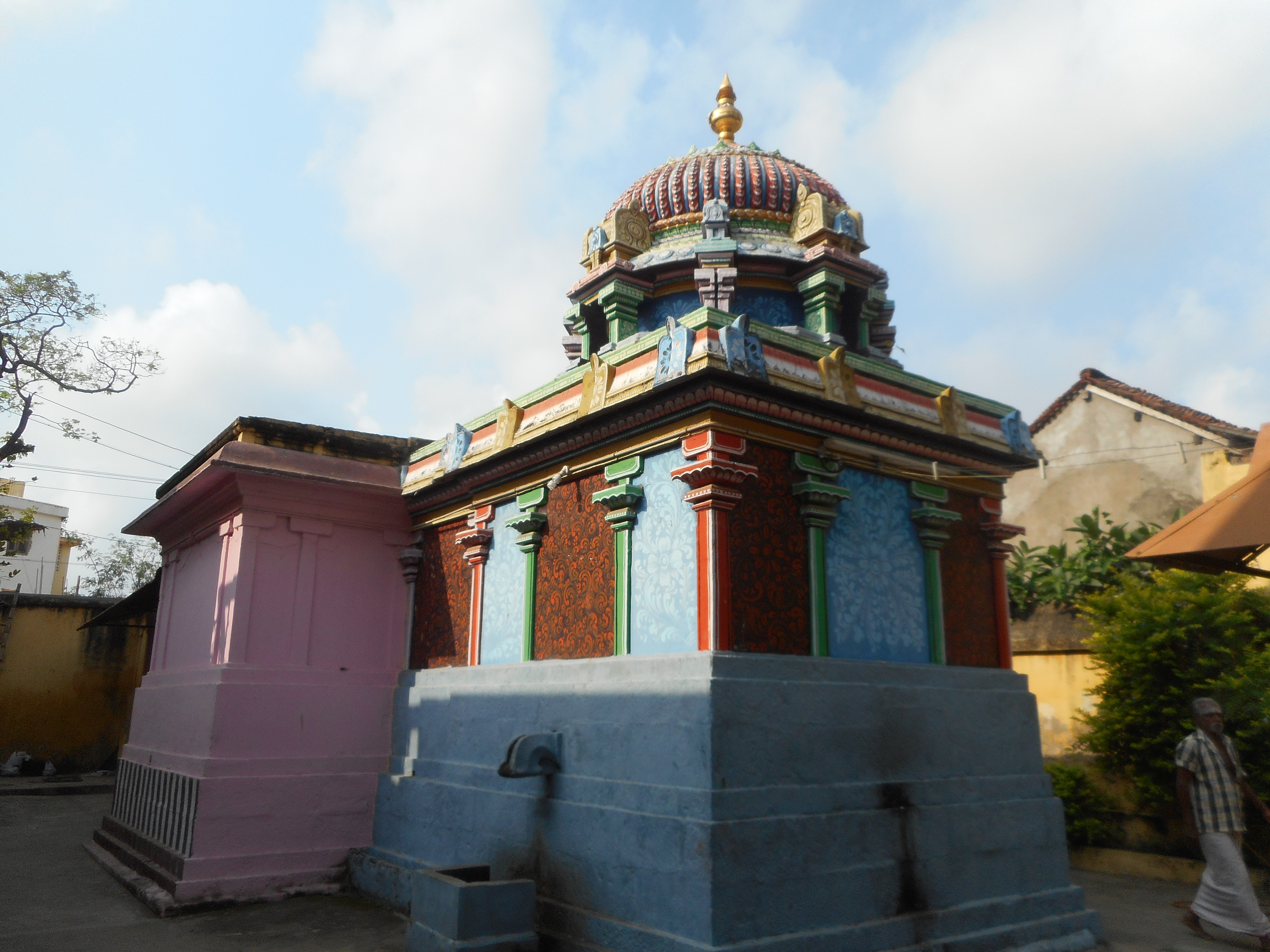 கும்பகோணம் காரியசித்தி ஆஞ்சநேயர்கோயில்